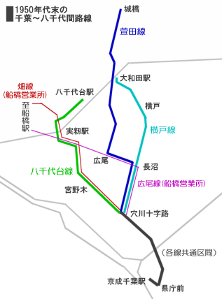 Route of Keisei bus that connects Chiba with Yachiyo in 1950's